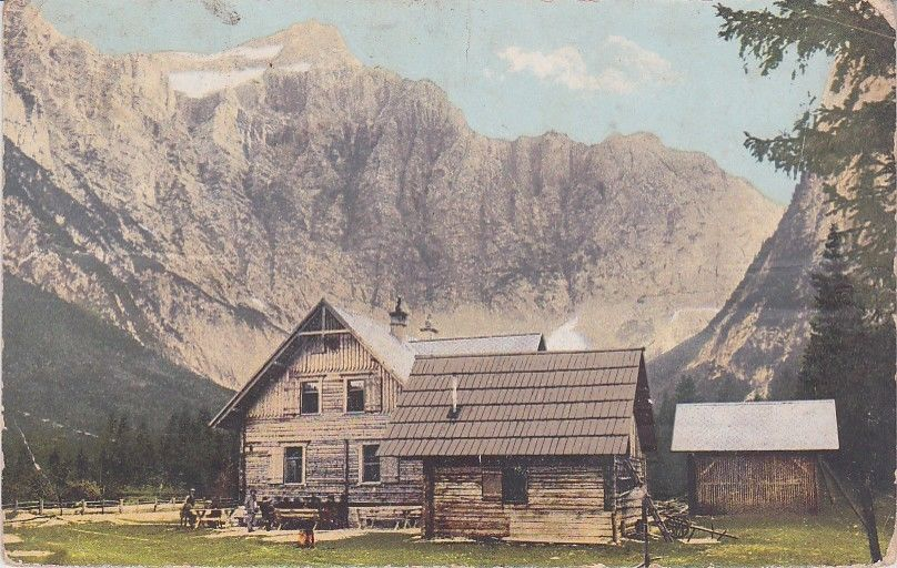 Postcard of Triglav.